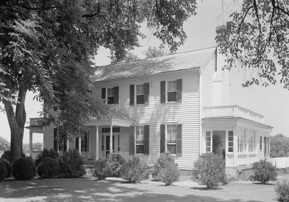 Sentry Box House, 133 Caroline Street (Fredericksburg, Virginia) cropped This file comes from the Historic American Buildings Survey (HABS), Historic American Engineering Record (HAER) or Historic American Landscapes Survey (HALS). These are programs of the National Park Service established for the purpose of documenting historic places. Records consist of measured drawings, archival photographs, and written reports. When reusing please credit: Library of Congress, Prints & Photographs Division, VA,89-FRED,22-1 This tag does not indicate the copyright status of the attached work. A normal copyright tag is still required. See Commons:Licensing for more information. This work is in the public domain in the United States because it is a work prepared by an officer or employee of the United States Government as part of that person’s official duties under the terms of Title 17, Chapter 1, Section 105 of the US Code. See Copyright. Note: This only applies to original works of the Federal Government and not to the work of any individual U.S. state, territory, commonwealth, county, municipality, or any other subdivision. This template also does not apply to postage stamp designs published by the United States Postal Service since 1978. (See § 313.6(C)(1) of Compendium of U.S. Copyright Office Practices). It also does not apply to certain US coins; see The US Mint Terms of Use. This file has been identified as being free of known restrictions under copyright law, including all related and neighboring rights. Object location38° 17′ 43″ N, 77° 27′ 15″ W